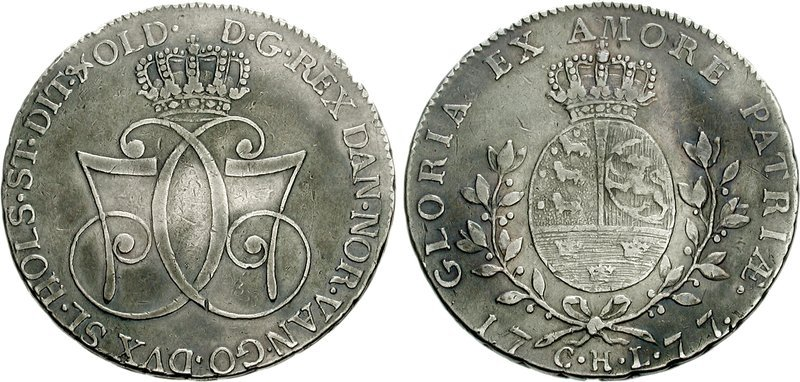 Denmark. Christian VII of Denmark. 1766-1808. AR Speciedaler (28.72 g, 12h). Altona mint; Kasper Henrik Lyng, mintmaster. Dated 1777. Crowned intertwined double C 7 monogram Crowned royal coat-of-arms within laurel wreath; date and mintmaster’s initials in exergue. Schou 1; KM 634. VF, toned, light field marks. Ex Ponterio 123 (14 November 2002), lot 1376.